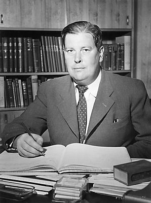 Photograph of the Finnish metallurgist Petri Bryk (1913–1977).